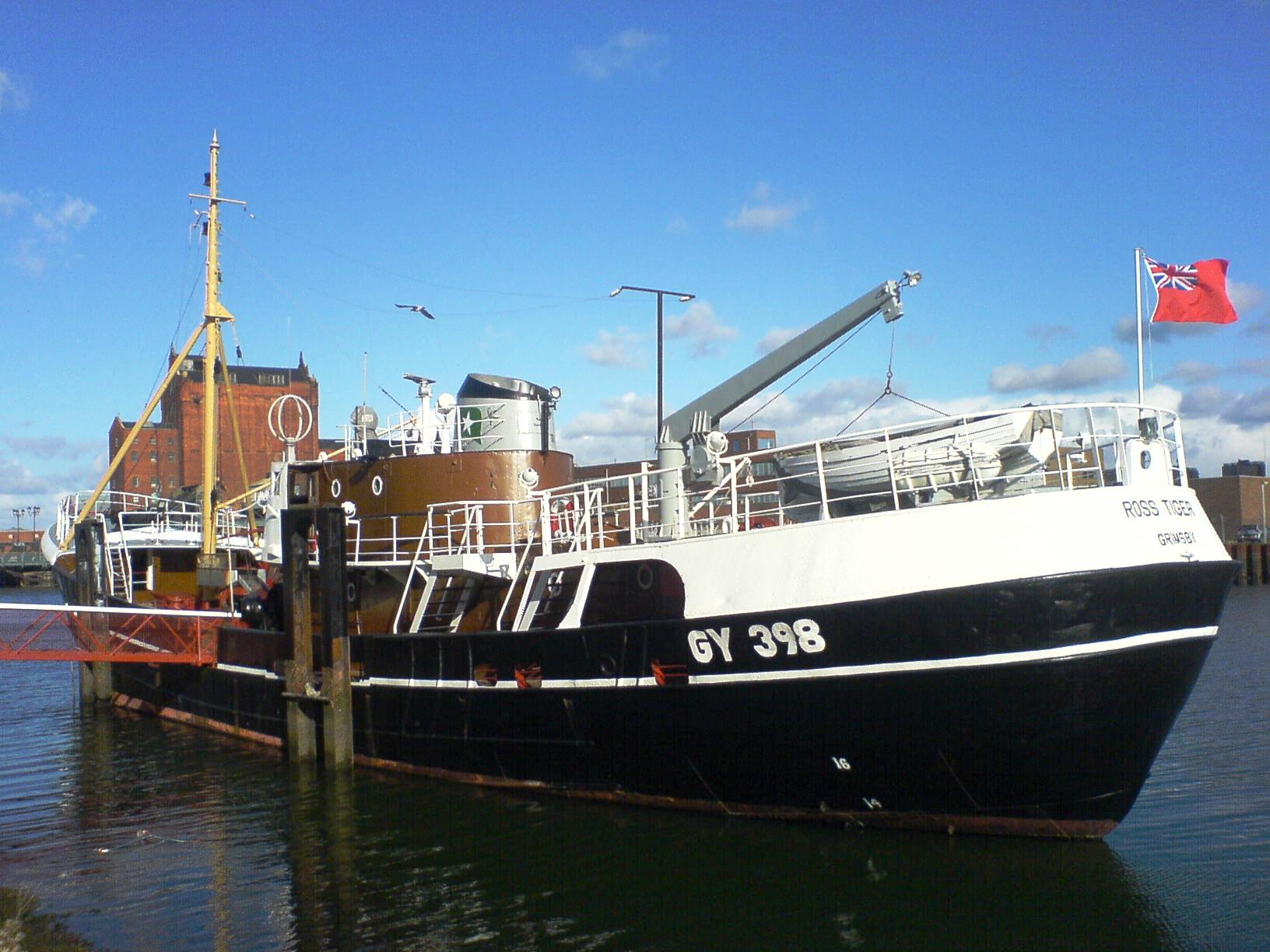 Preserved Grimsby trawler, Ross Tiger, moored in Alexandra Dock, Grimsby, as the star feature of the Fishing Heritage Centre.